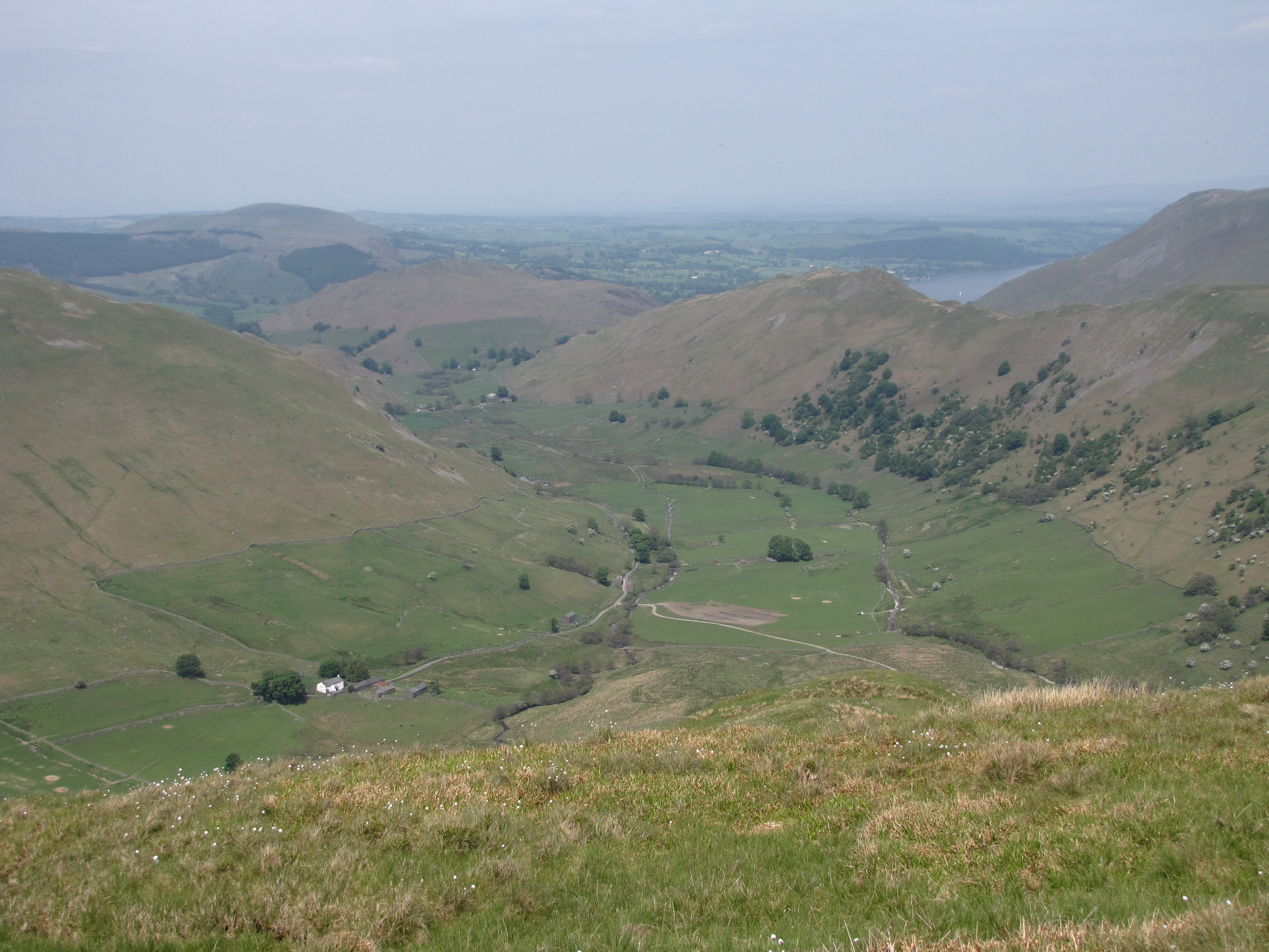 The view of Martindale from the summit of The Nab in the English Lake District.